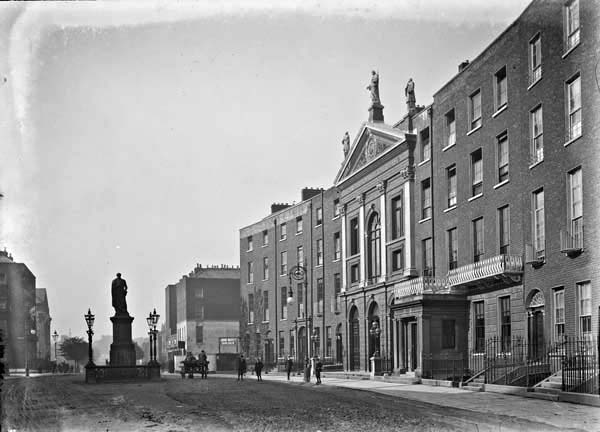 Photograph taken between ca. 1880 and 1900. Format: glass negative Part of: National Library of Ireland Eason Collection. For more photographs in this collection see National Library of Ireland catalogue: Reference number: EAS_2786